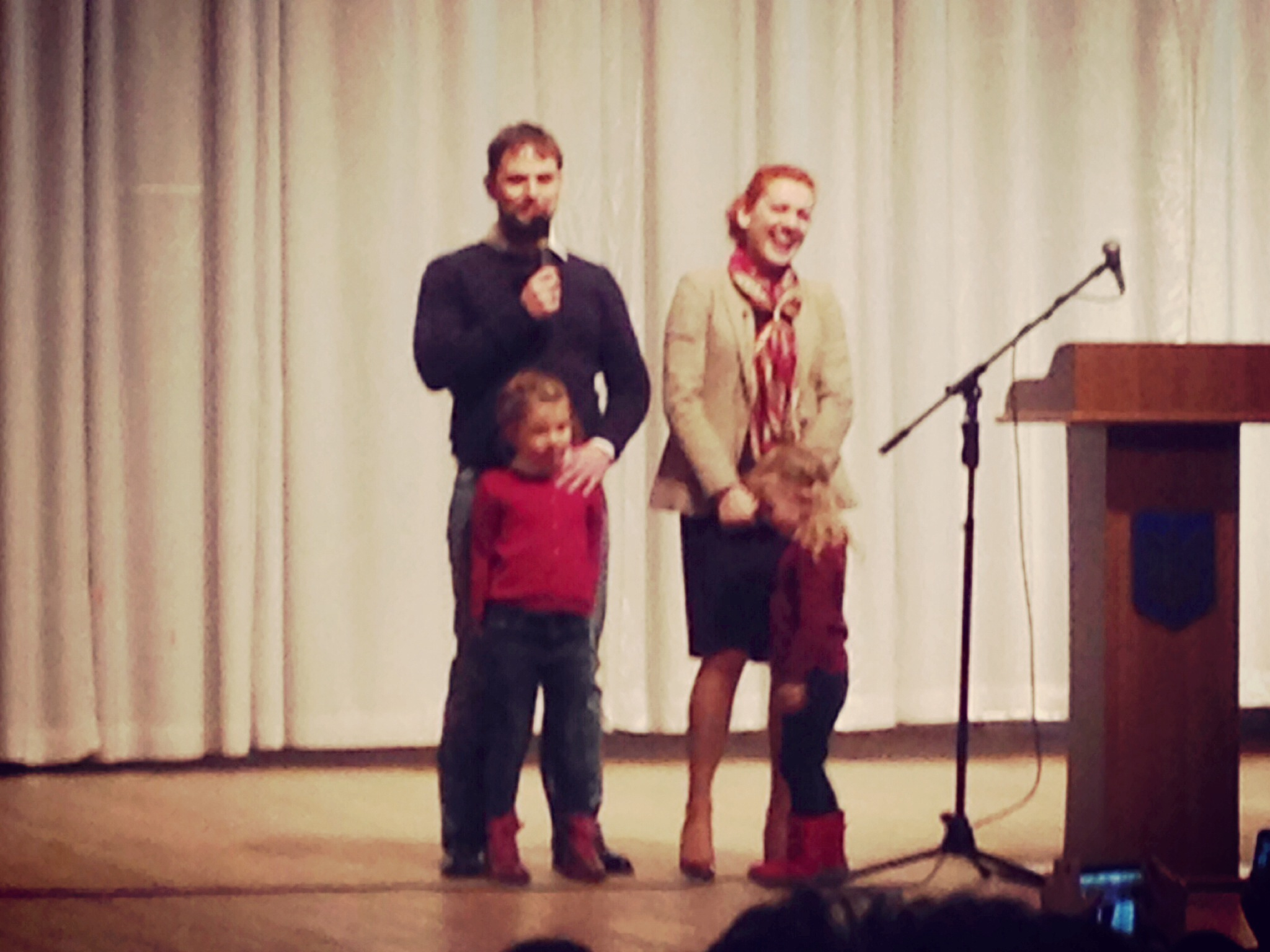 Lesya Orobets with family